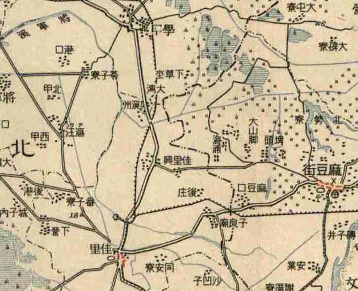 1930s map depicts Karikou (Ka-li-heng; Jialixing), cropped from a portion of Nijūmanbun no ichi teikokuzu